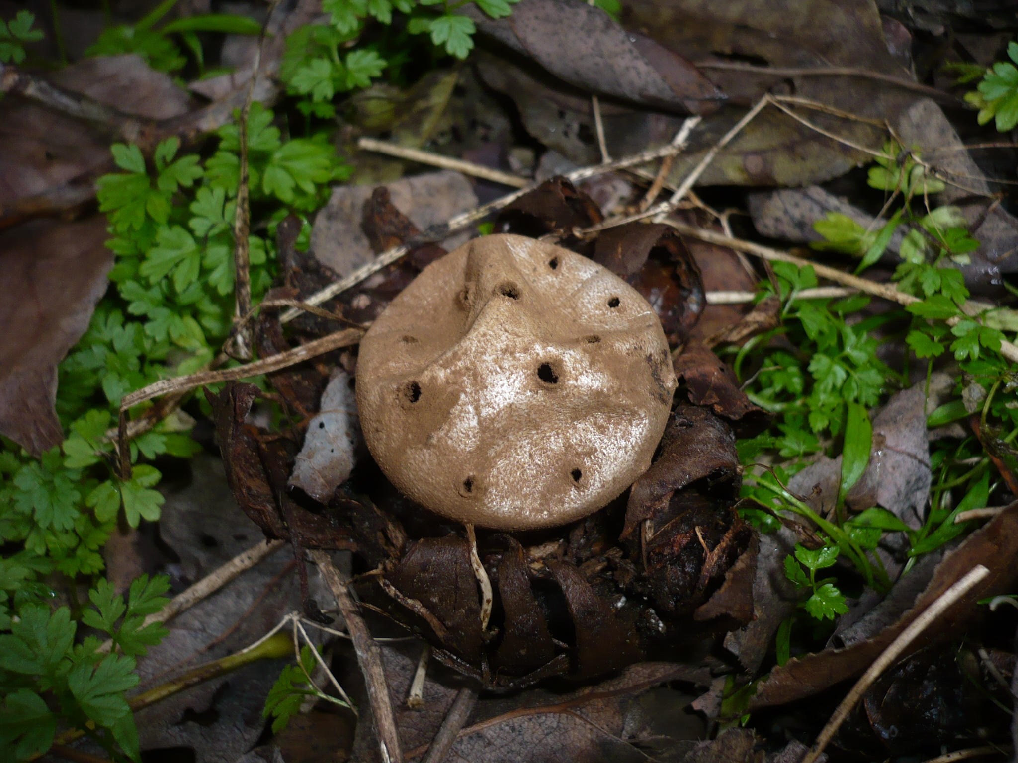 A fruit body of the fungus Myriostoma coliforme (Dicks.) Corda. Specimen photographed in Hölle, Illmitz, Bezirk Neusiedl am See, Burgenland, Austria.